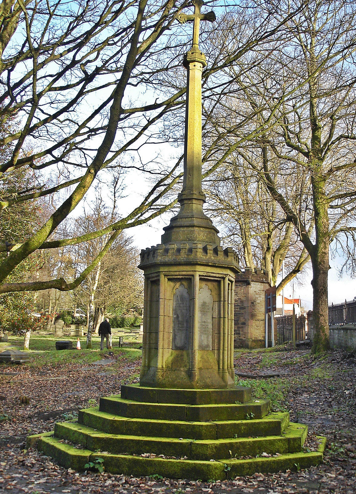 Hulton Memorial to members of the Hulton family in St Mary's churchyard, Deane, Bolton, UK. It is a Grade II listed structure.